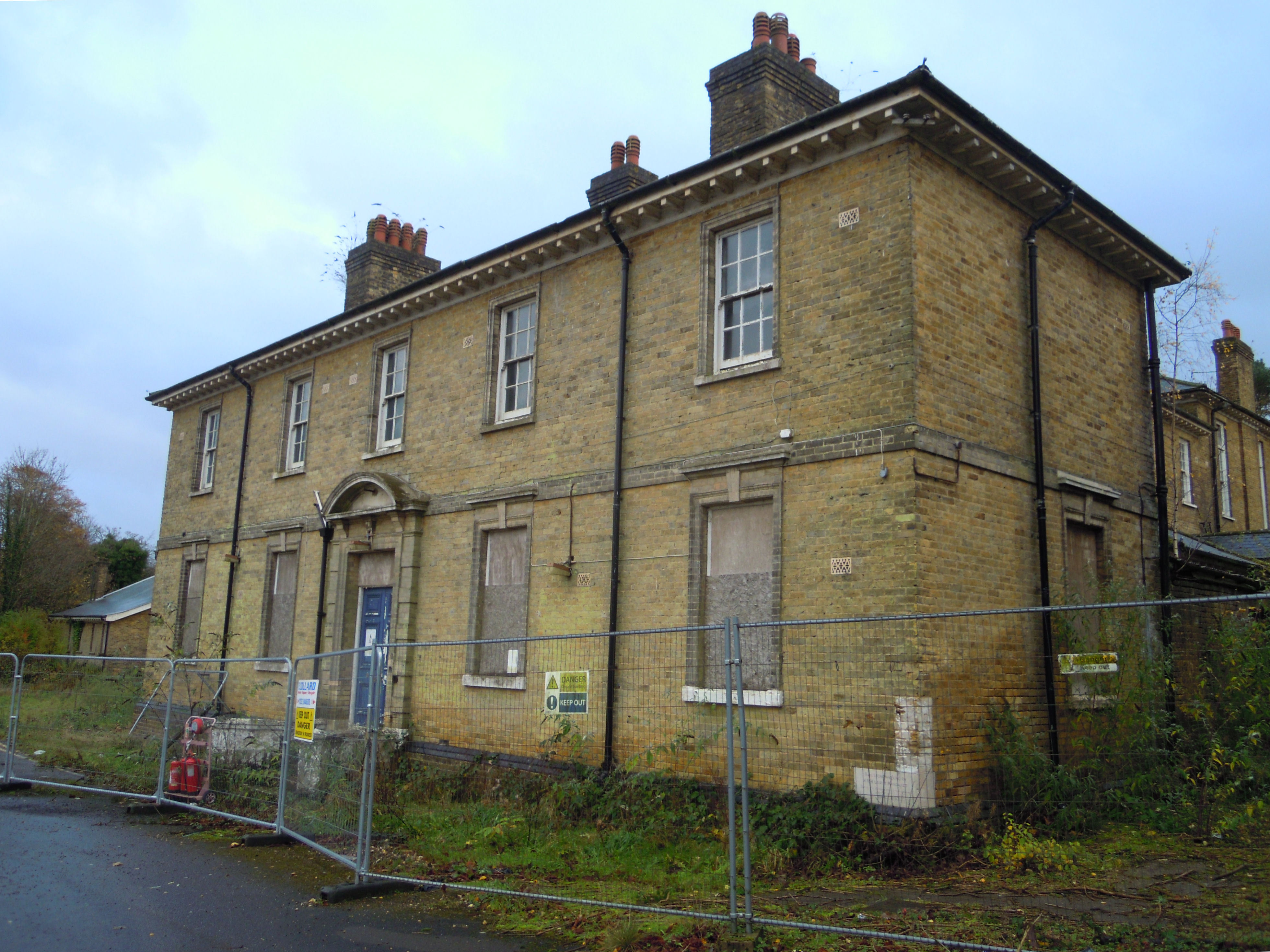 The derelict Louise Margaret Hospital in Aldershot in Hampshire